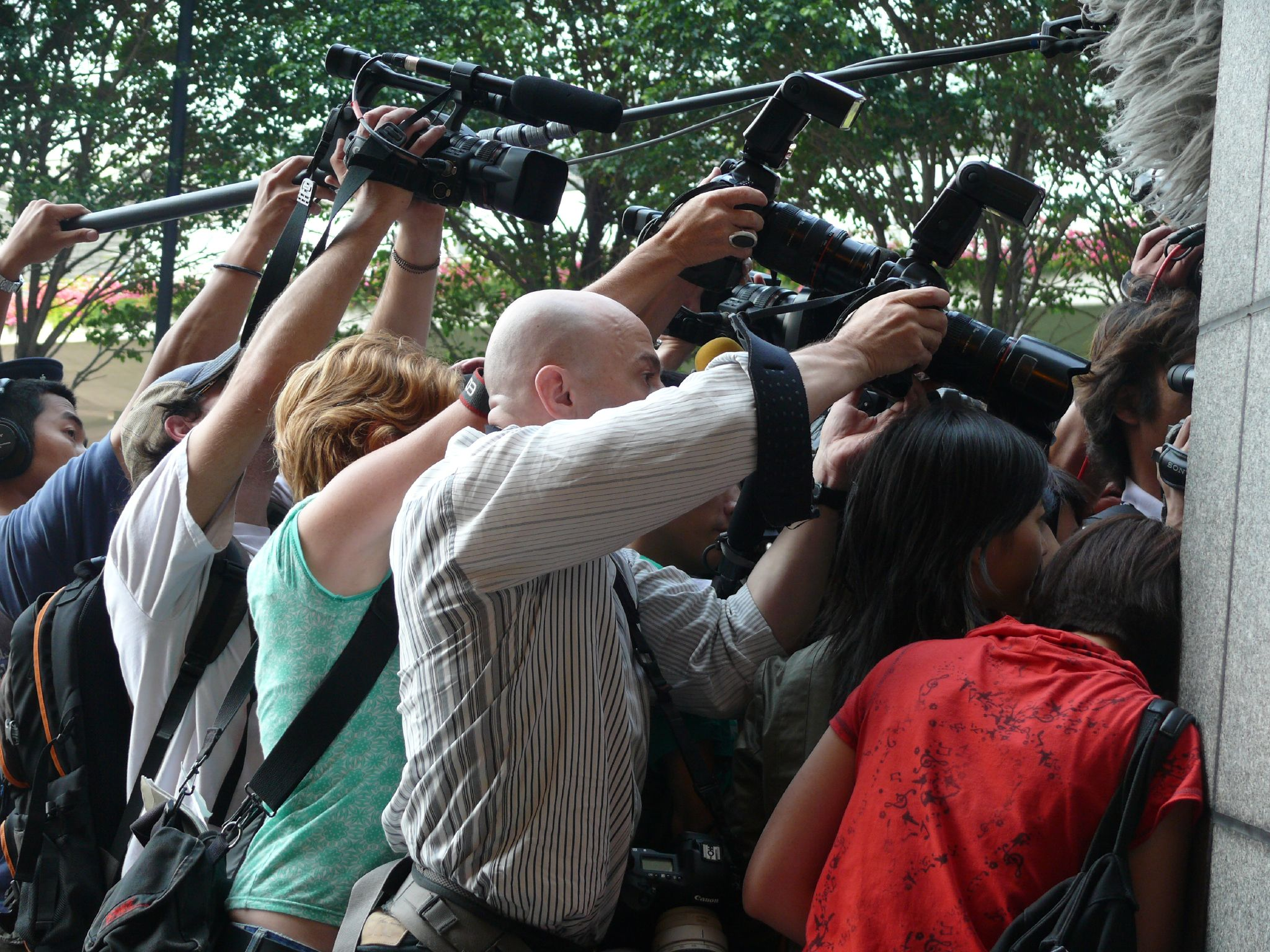 Alain Robert ascend of Four Seasons Hotel Hong Kong in 2008